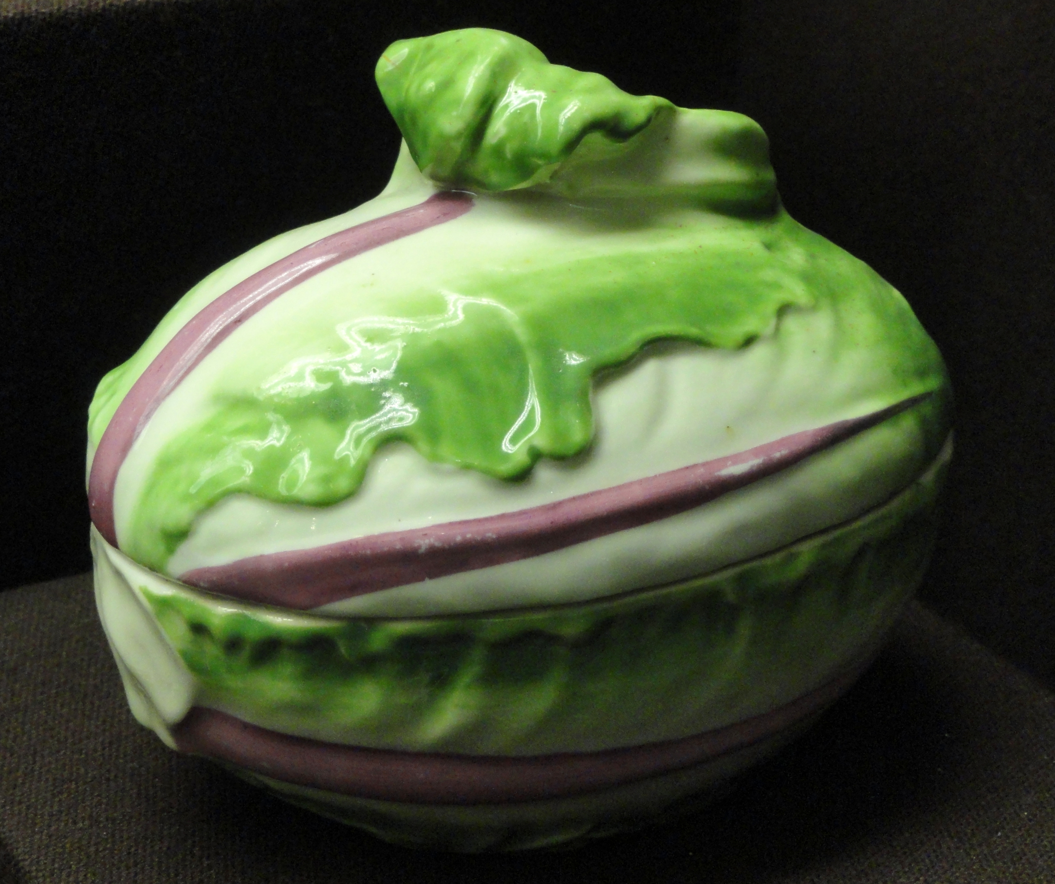 Exhibit in the Gardiner Museum, Toronto, Ontario, Canada. This artwork is in the public domain because the artist died more than 70 years ago.